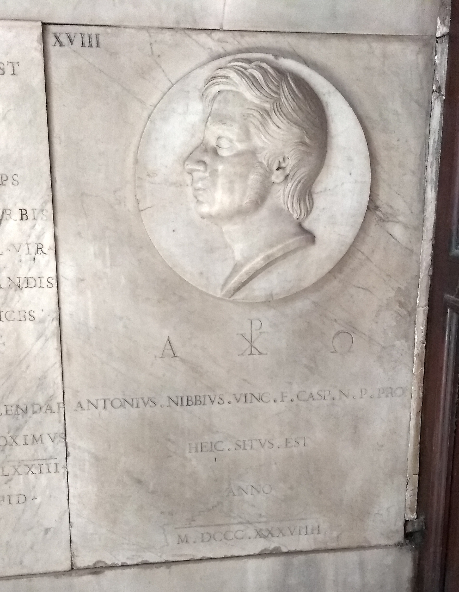 Antonio Nibby grave, in Verano cemetery (Rome)